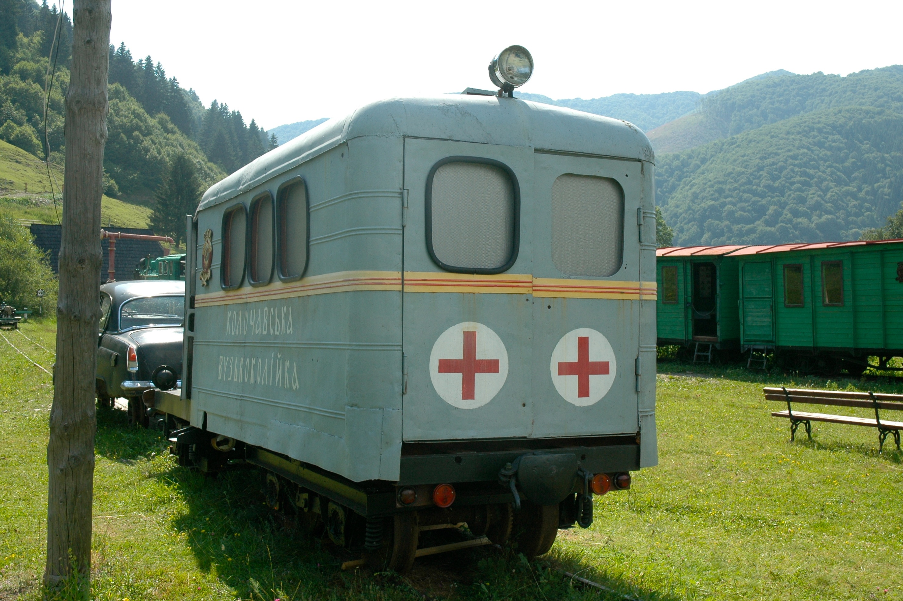 SMD-1 Soviet ambulance draisine of the former Kolochava Narrow Gauge Railway